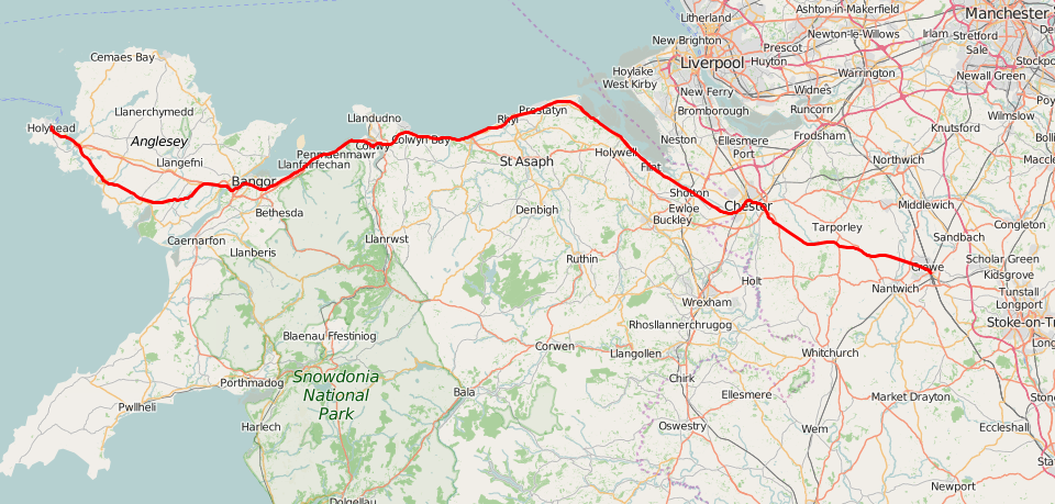 The North Wales Coast Line This map may be incomplete, and may contain errors. Don't rely solely on it for navigation.